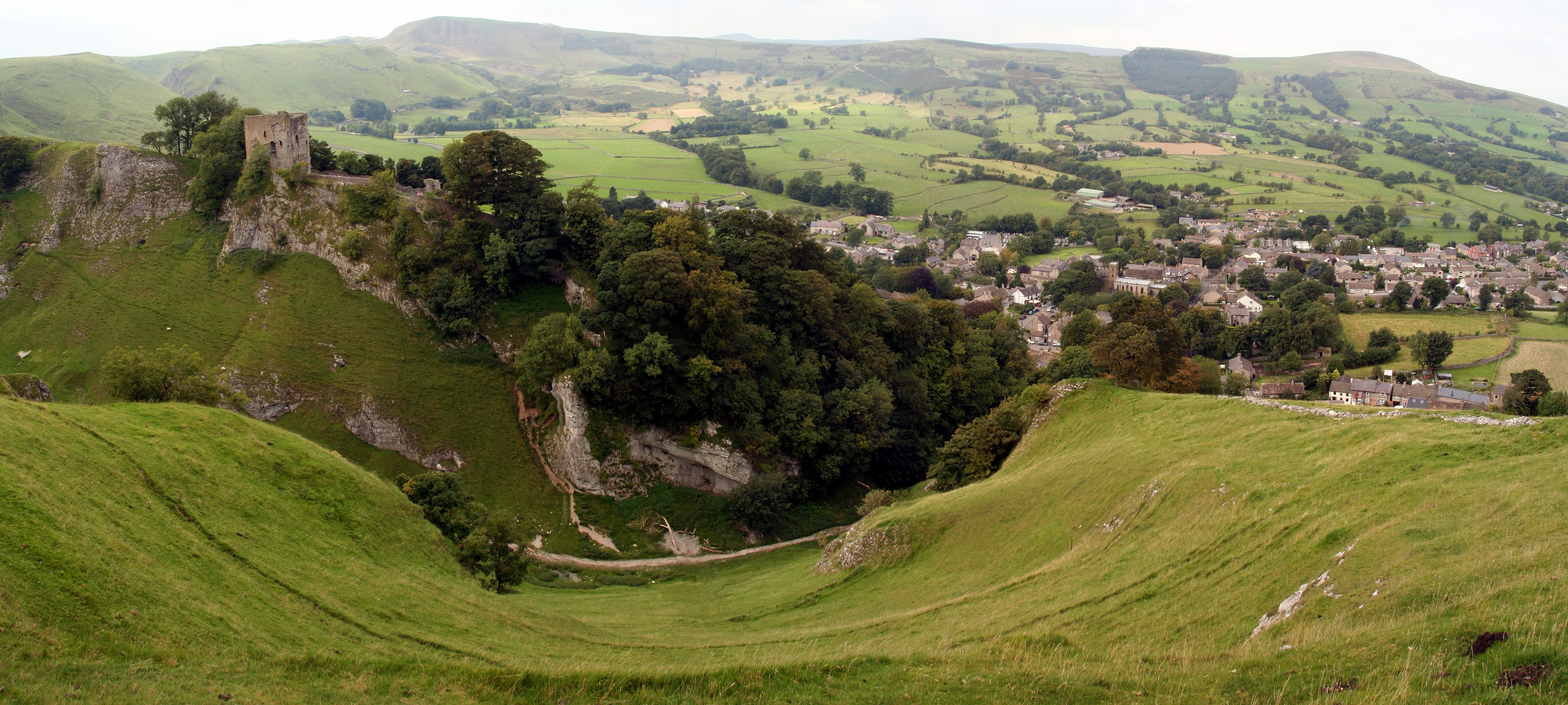 Peveril Castle standing above the of Castleton in Derbyshire.